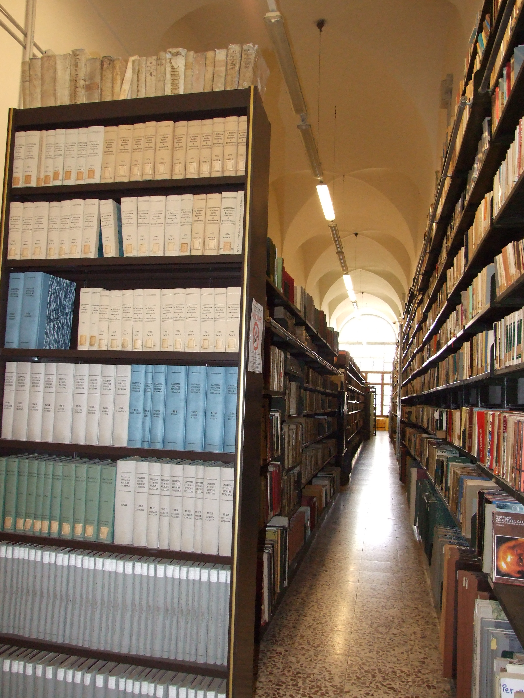 Catania, Biblioteche Riunite "Civica e A. Ursino Recupero”, Corridoio dell'Elefante